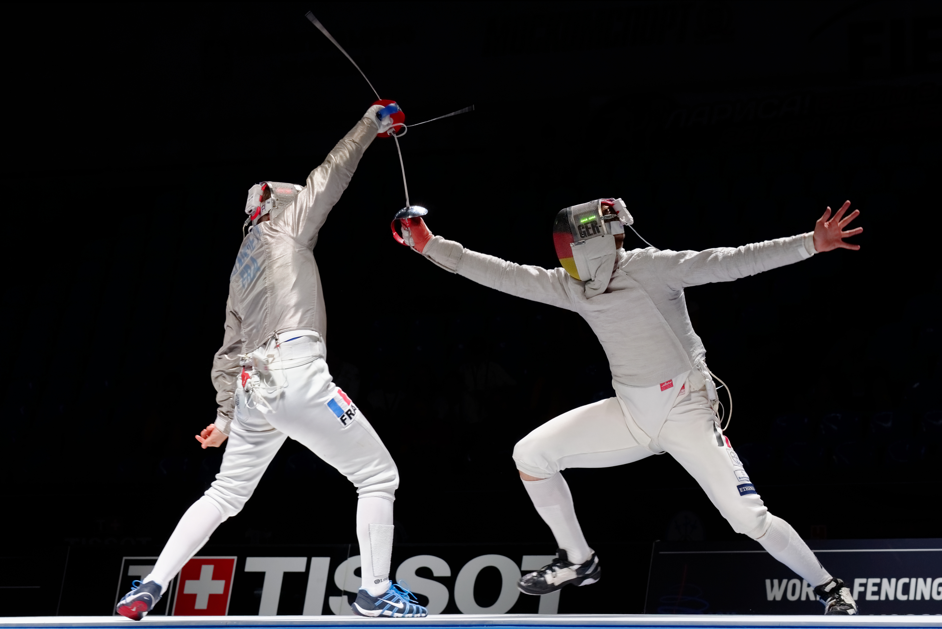 France's Vincent Anstett (left) parries Germany's Benedikt Wagner (right) in the match for the bronze medal at the 2015 World Fencing Championships on 17 July 2015 at the Olympic Stadium in Moscow.